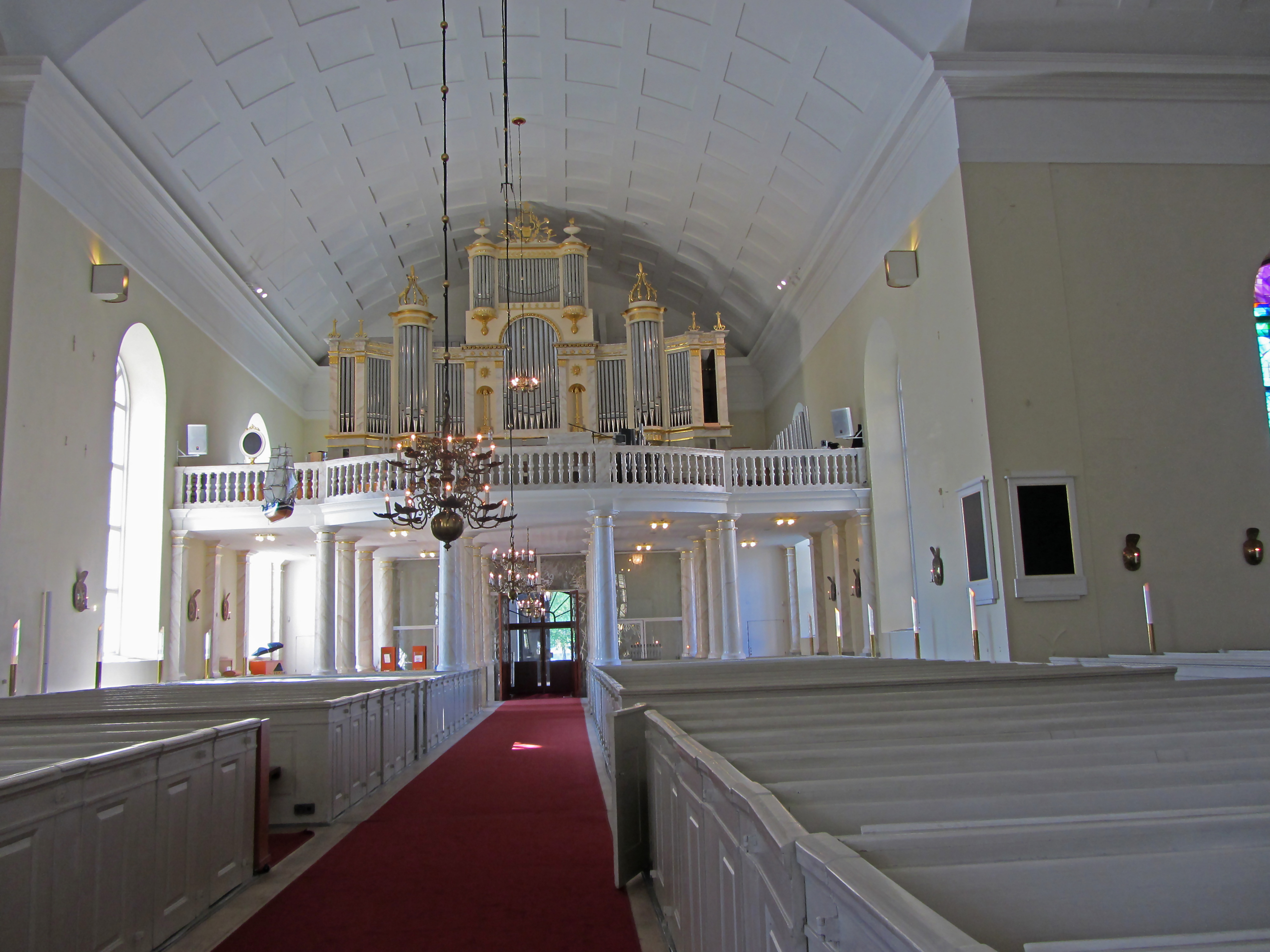 Interior of Oulu Cathedral